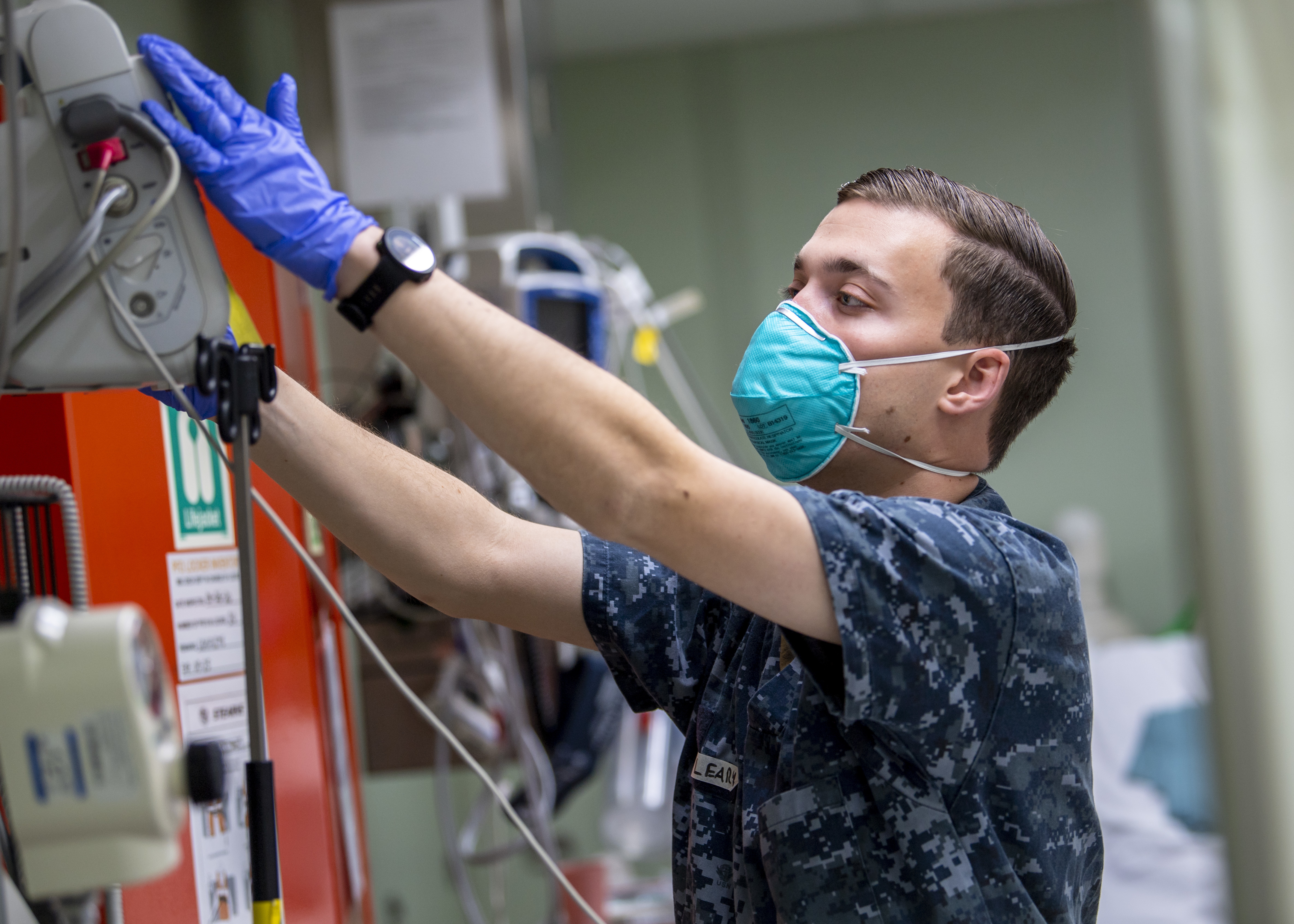 200416-N-PH222-1039 LOS ANGELES (April 16, 2020) Hospital Corpsman 3rd Class Brennan Leary, from Johnstown, Pa., treats a patient in an intensive care unit aboard the hospital ship USNS Mercy (T-AH 19) April 16. Mercy deployed in support of the nation's COVID-19 response efforts, and will serve as a referral hospital for non-COVID-19 patients currently admitted to shore-based hospitals. This allows shore base hospitals to focus their efforts on COVID-19 cases. One of the Department of Defense's missions is Defense Support of Civil Authorities. DoD is supporting the Federal Emergency Management Agency, the lead federal agency, as well as state, local and public health authorities in helping protect the health and safety of the American people. (U.S. Navy photo by Mass Communication Specialist 2nd Class Ryan M. Breeden)